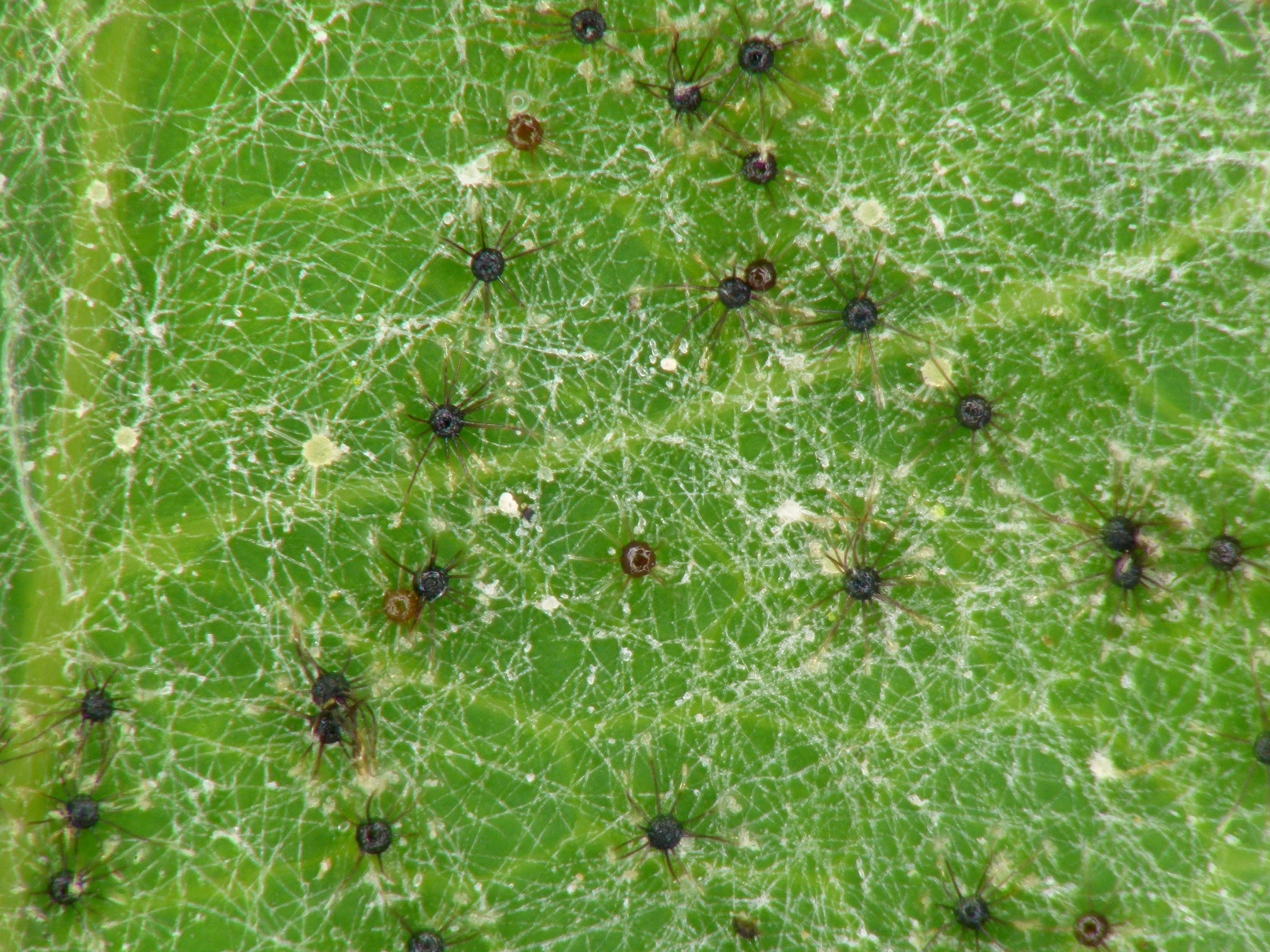 Powdery mildew on a leaf of Amelanchier also known as shadbush, shadwood or shadblow, serviceberry or sarvisberry, juneberry, saskatoon, sugarplum or wild-plum, and chuckley pear